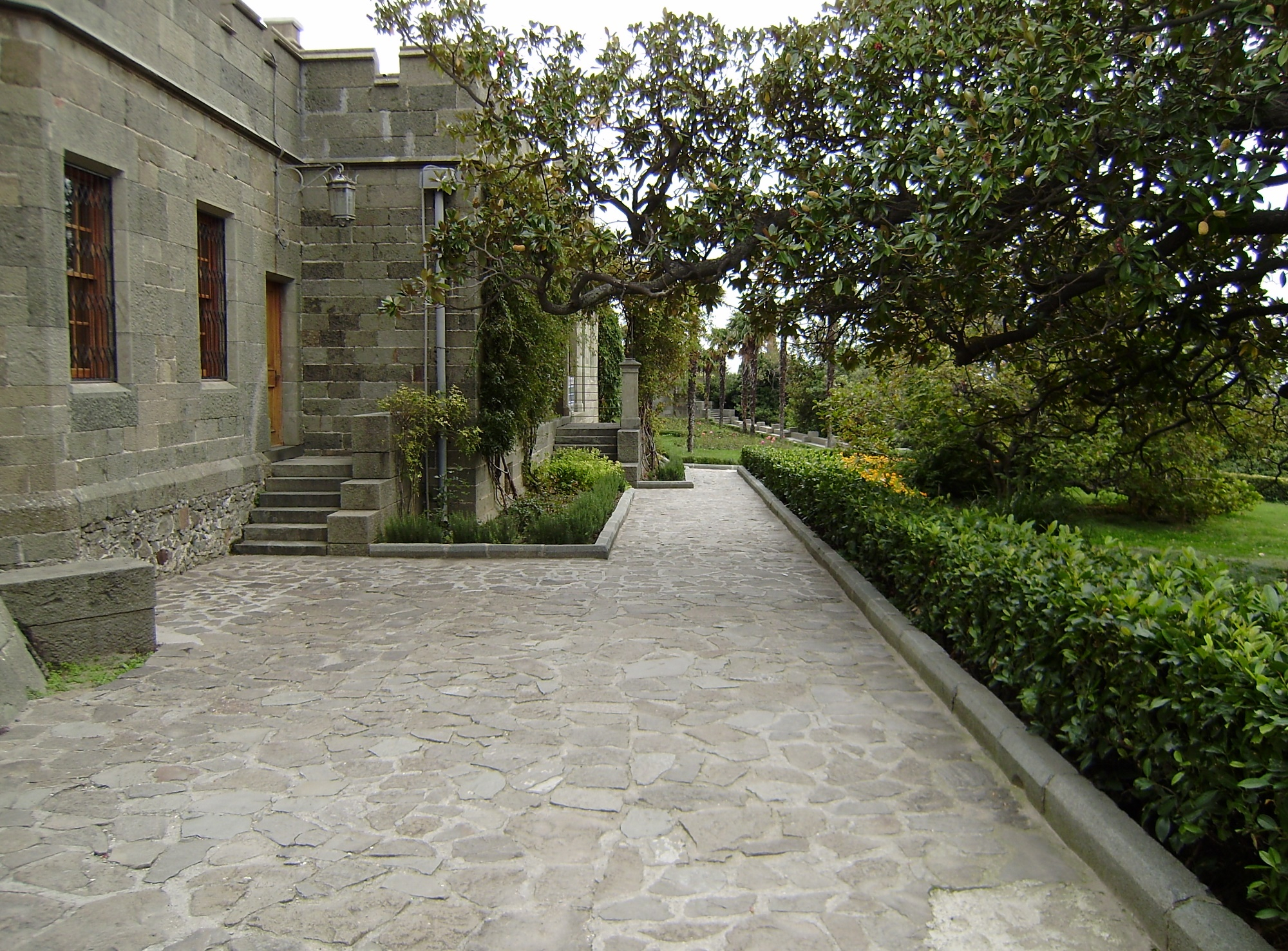 Vorontsovsky park (Crimea, Ukraine)